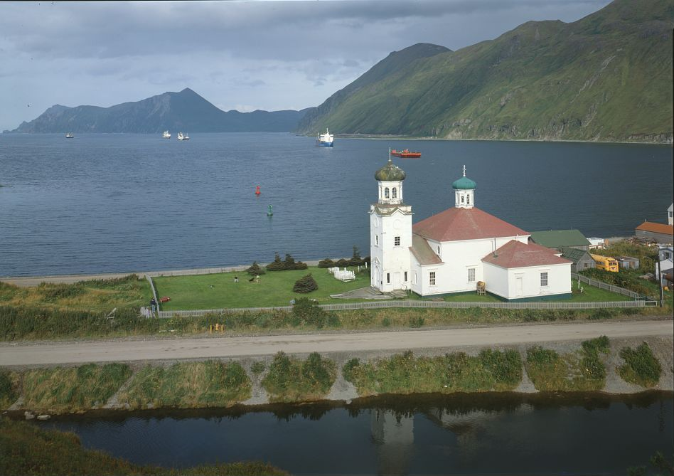 One of the oldest Russian Orthodox churches in Alaska, the Holy Ascension Russian Orthodox Church of 1894 is a National Historic Landmark.